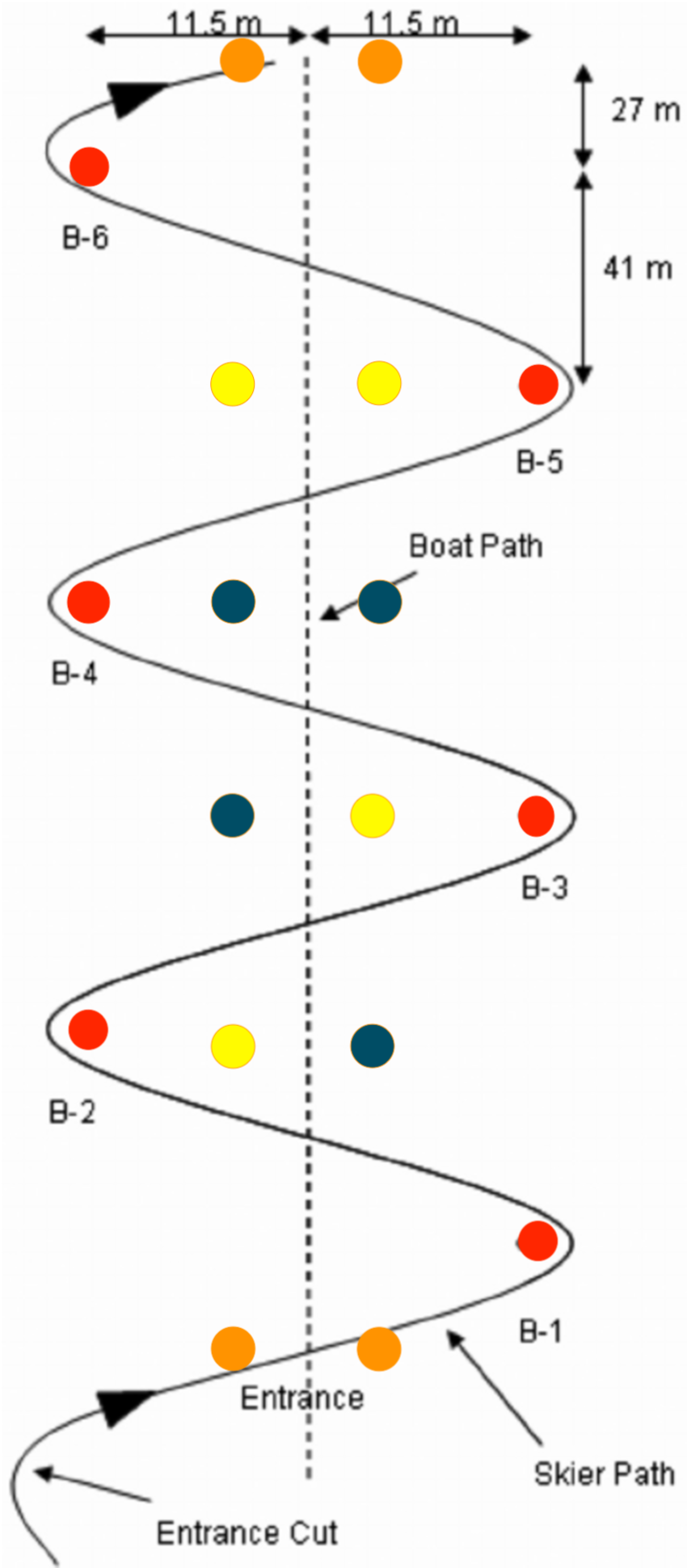 slalom expl